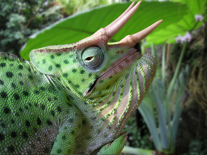 Chamaeleo deremensis, Male, Tanzania / Usamabara-Uluguru Mountains